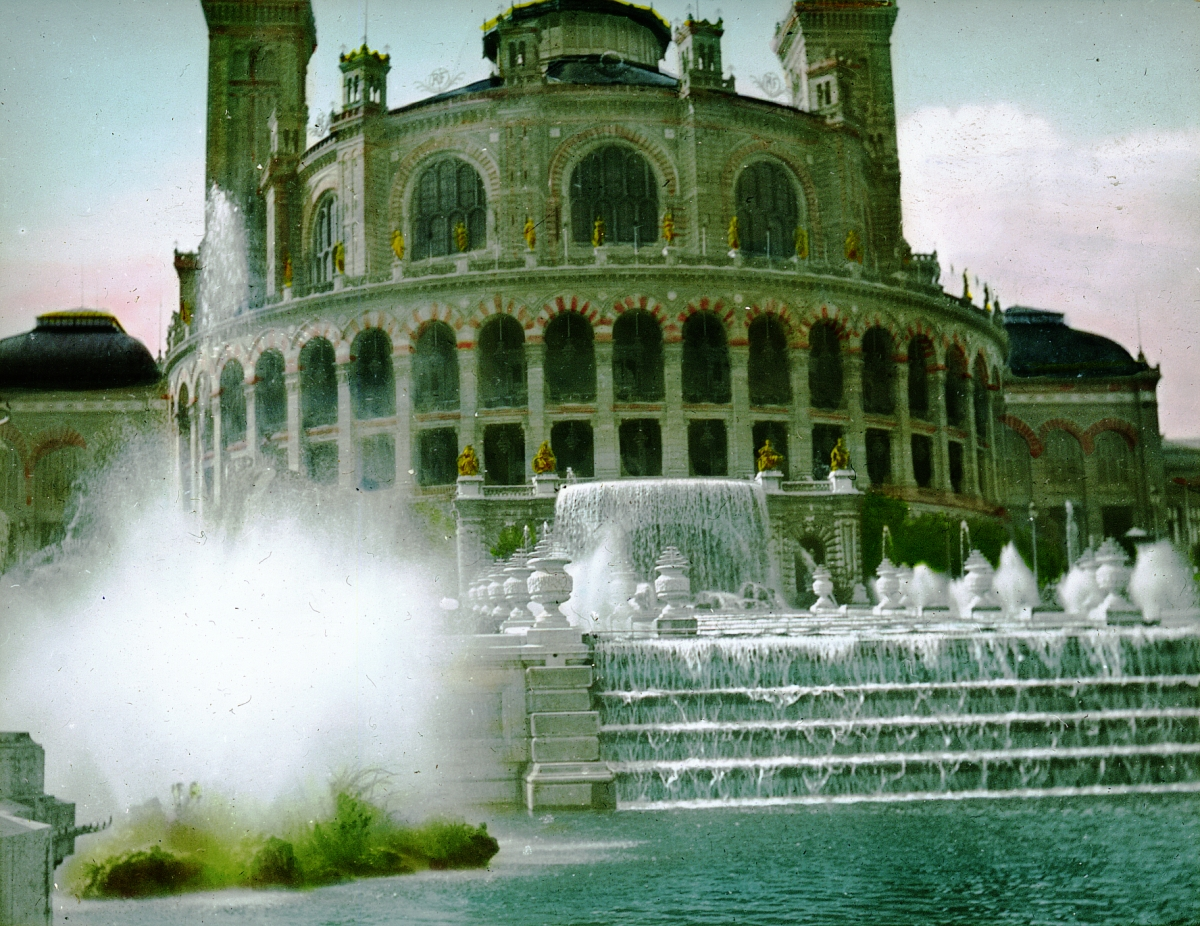 Paris Exposition: Trocadero Palace and Park, Paris, France, 1900. Trocadero Palace and Park. At night water is released and it becomes a fountain. Brooklyn Museum Archives.